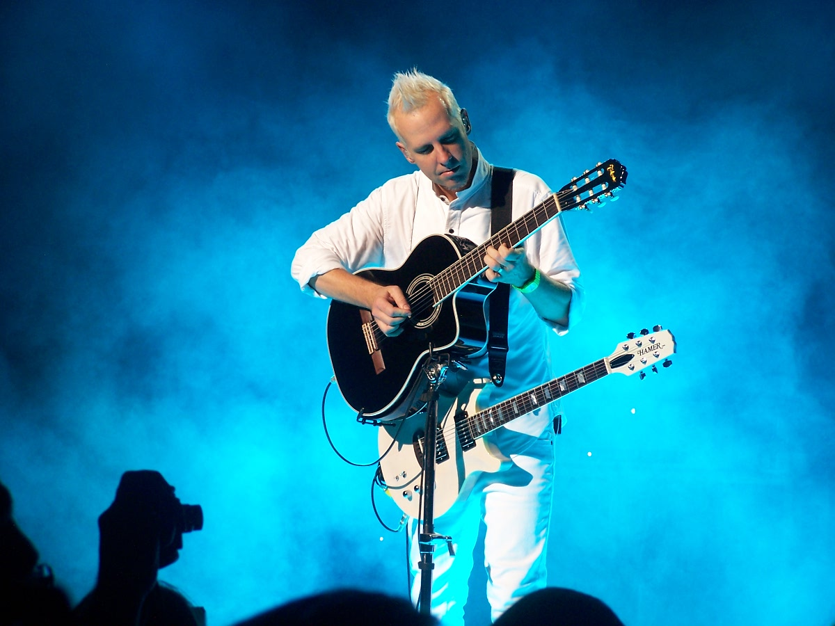 No Doubt performing in Milwaukee.